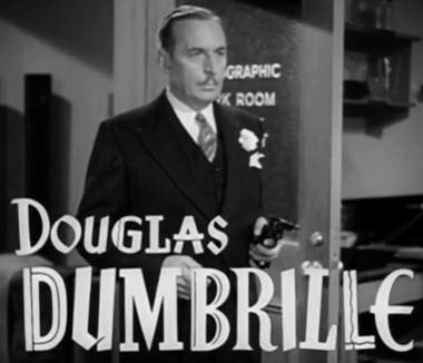 Douglass Dumbrille (aka Douglas Dumbrille) in The Big Store - trailer (cropped screenshot)